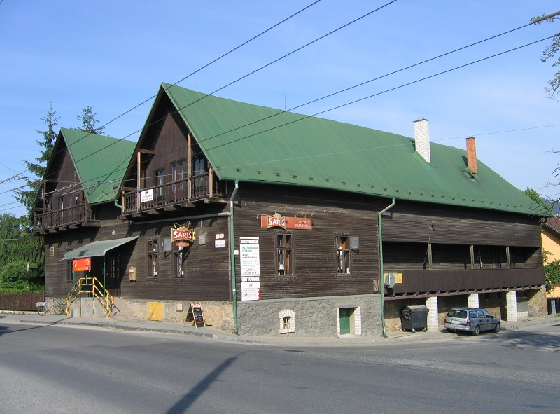 "Drevenica", Závodie (Žilina)